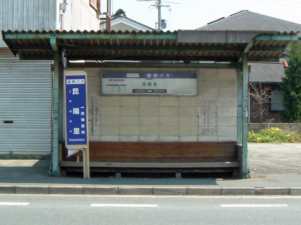 HANSHIN BUS Koyanosato bus stop